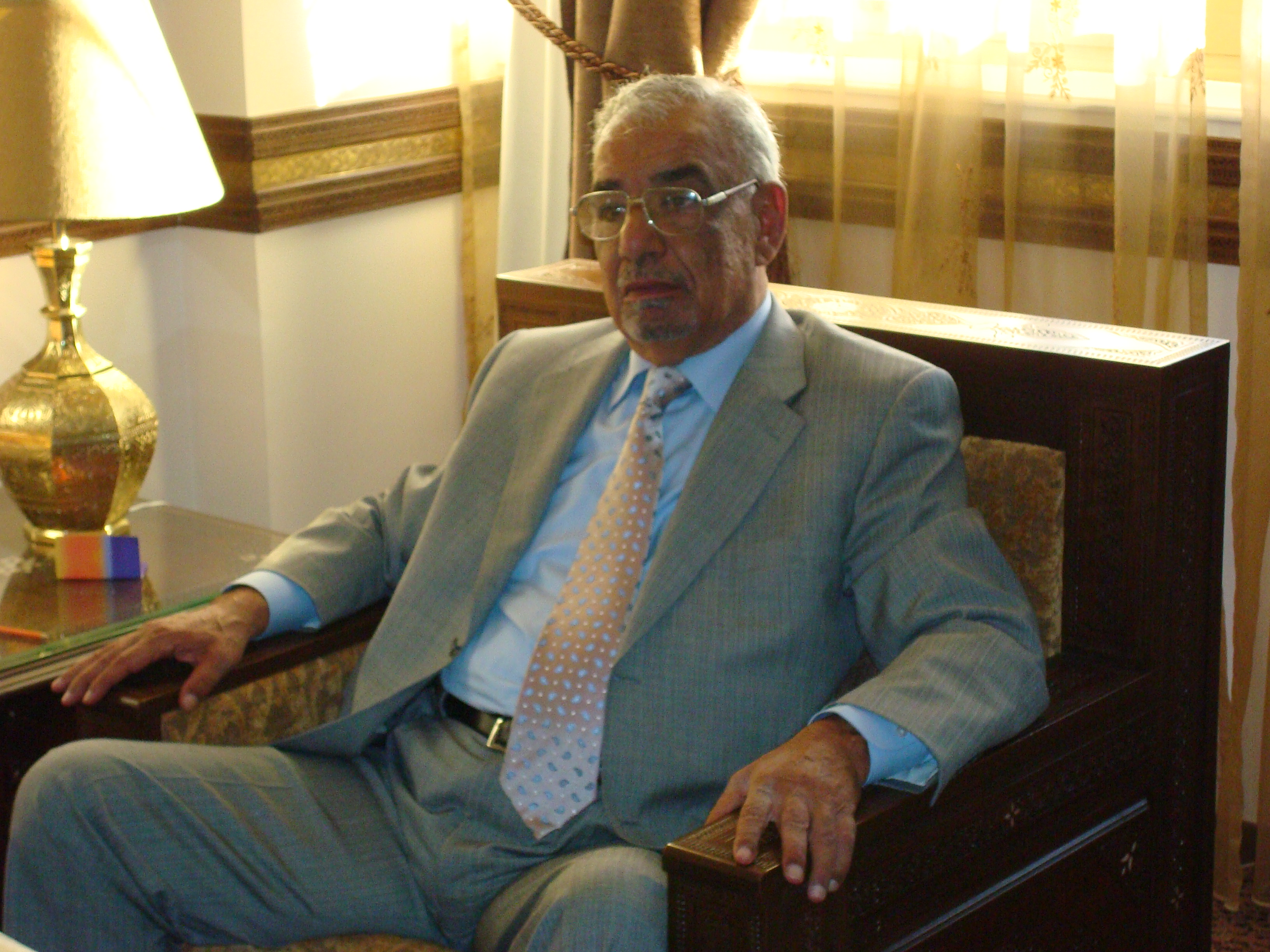 Mr. Ali Eid